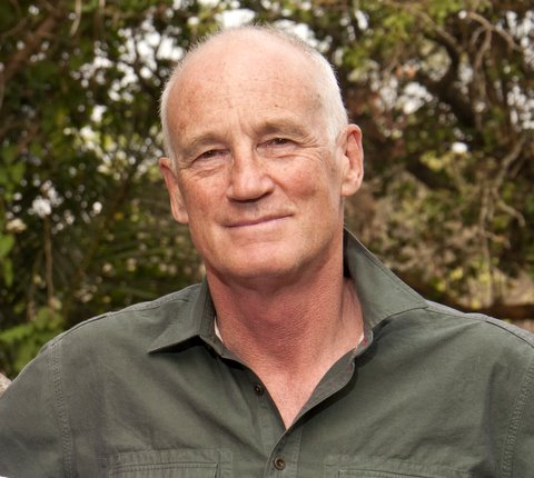 Michael Christopher Daly on vacation in Zambia